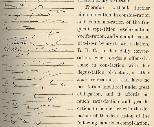 Excerpt from "Eclectic Shorthand" by J.G. Cross, 1897. Scanned by me and placed in the public domain .